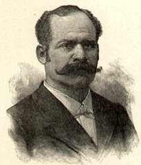 Engraving of José Santos Zelaya